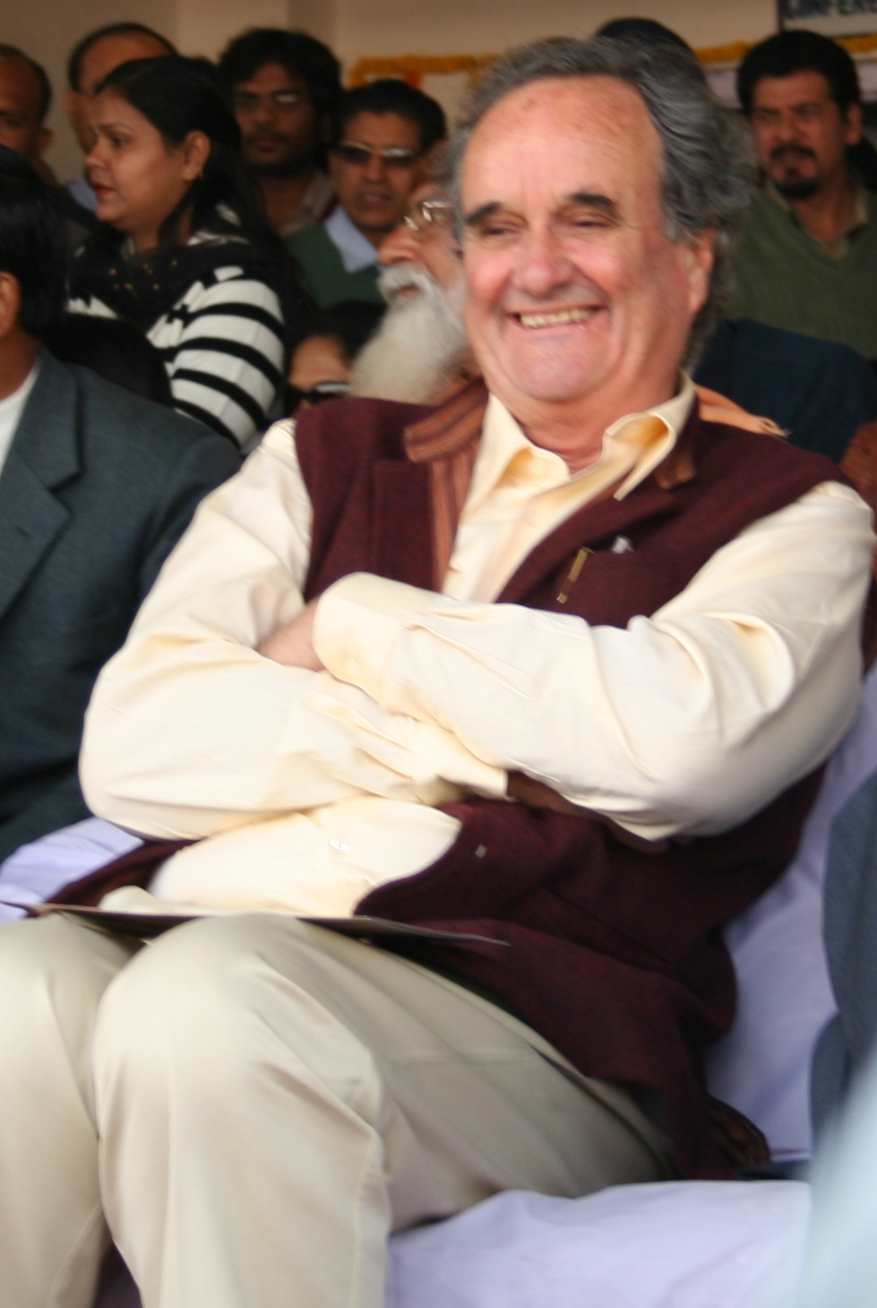 Sir Mark Tully, KBE (b. 1936 in Calcutta, India[ is the former Chief of Bureau, BBC, New Delhi. He worked for BBC for a period of 30 years before resigning in July 1994.] He held the position of Chief of Bureau, BBC, Delhi for 20 years. Since 1994 he has been working as a freelance journalist and broadcaster based in New Delhi. This photo was taken during steam engine parade at Safdajung railway station